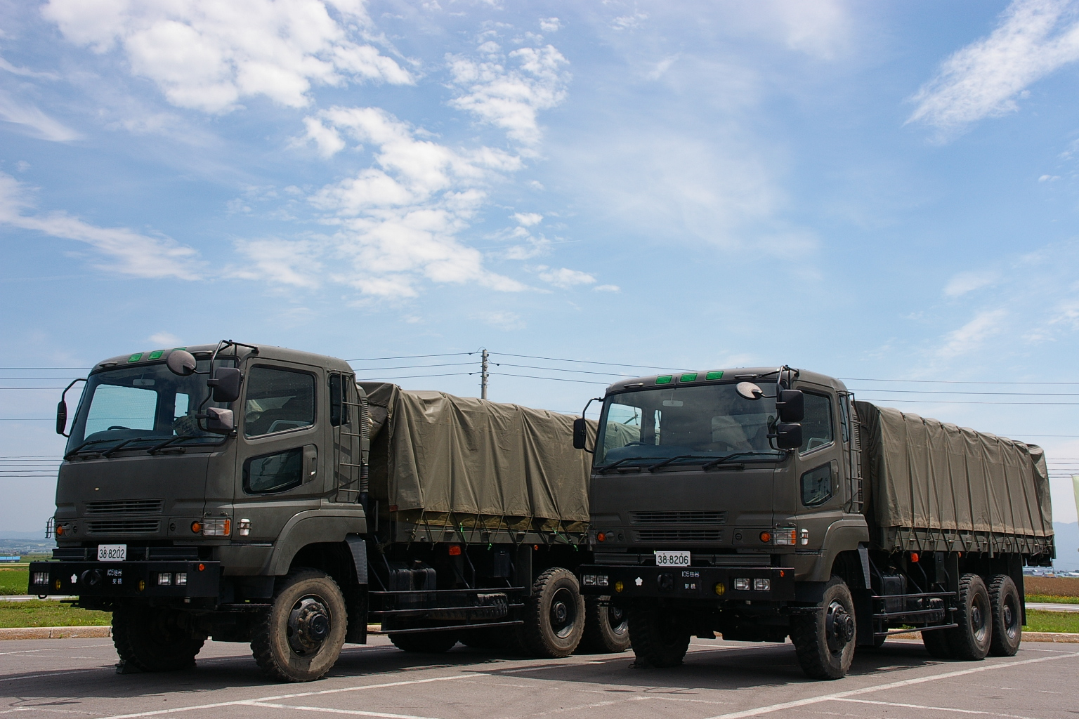 Japan Ground Self Defense Force, Type74 Large Track.